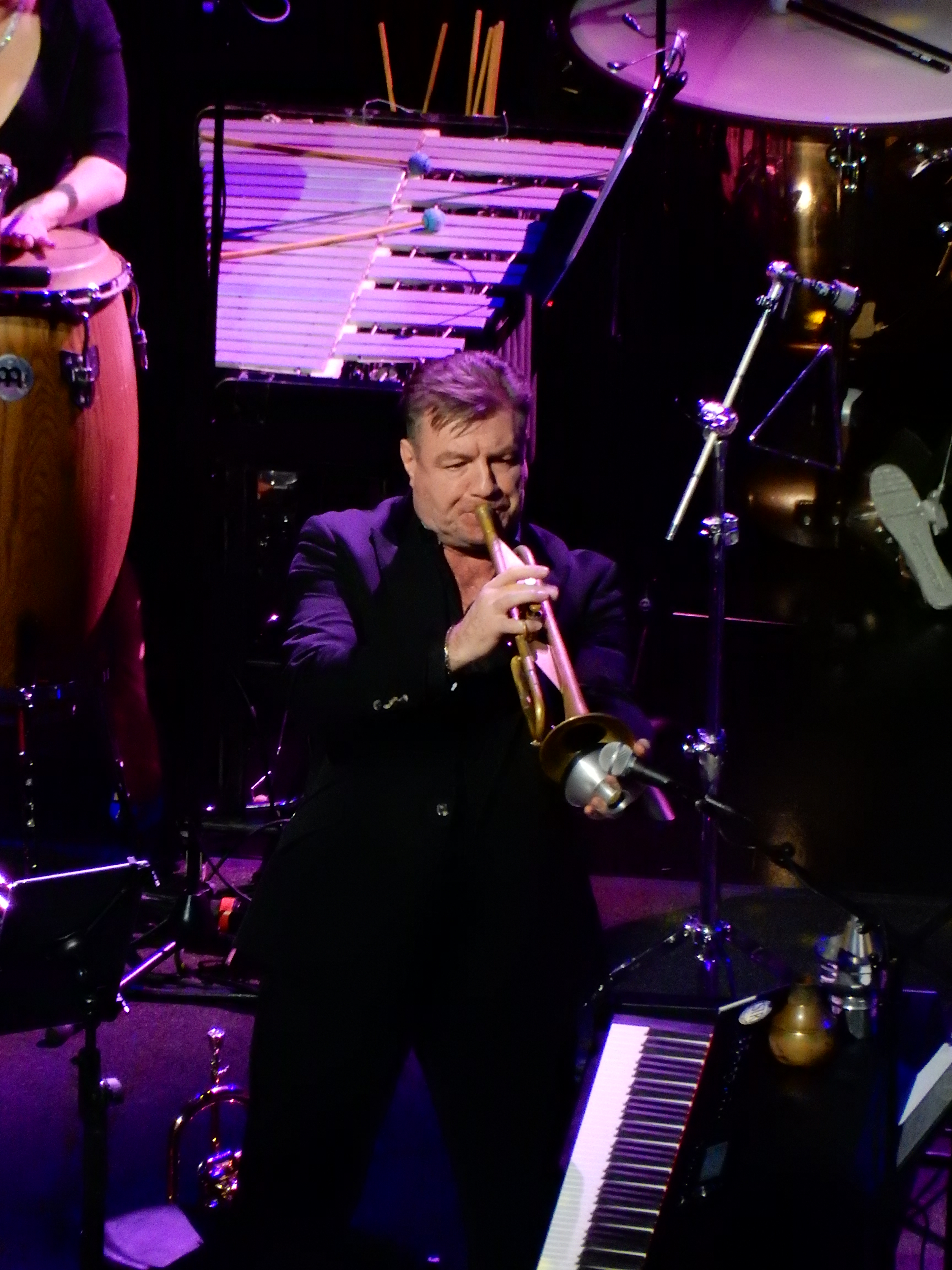 Paul Moran on Trumpet 1/31/2018